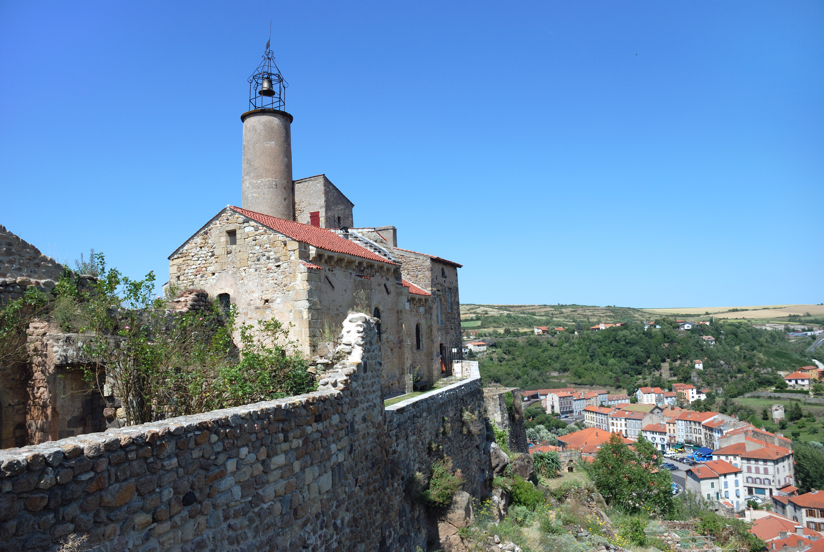 Champeix : the Marchidial, chapel Saint-John (Puy-de-Dôme, France. Translations in other languages are welcome.